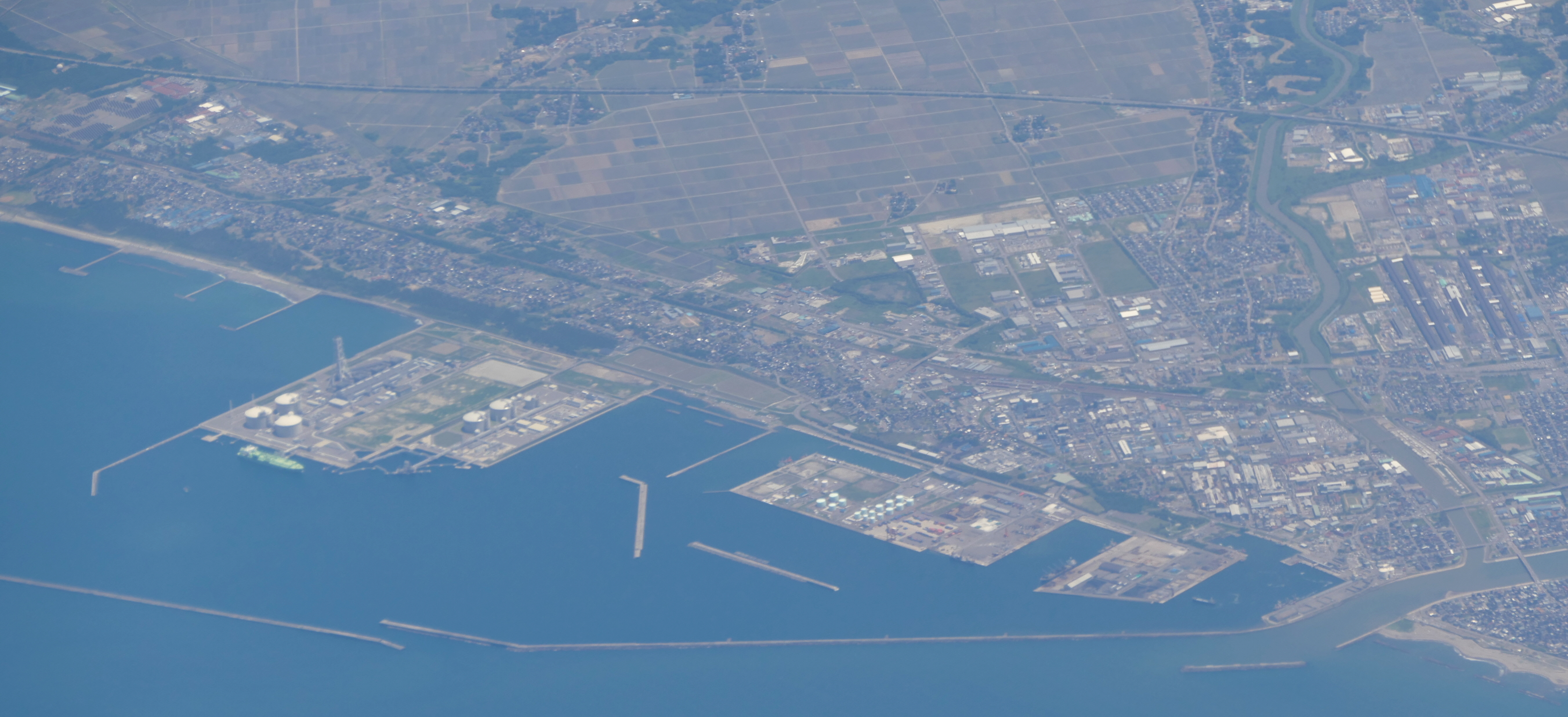 Joetsu Thermal Power Station as seen from the sky,Niigata prefecture, Japan